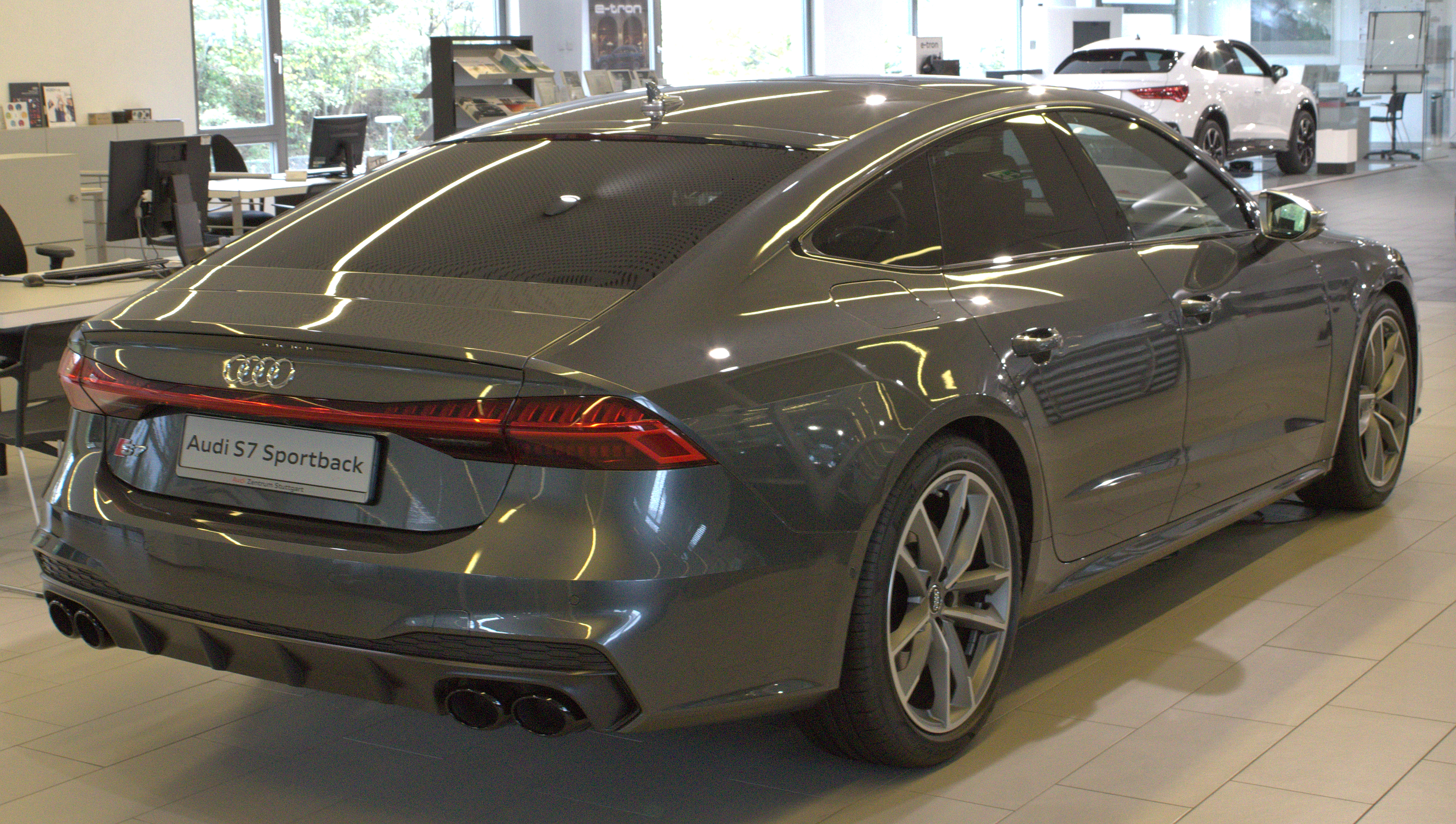 Audi_S7_C8 in Stuttgart-Vaihingen